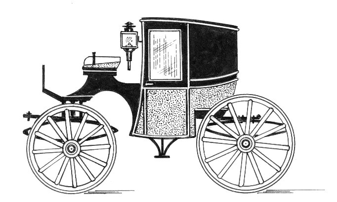 line art drawing